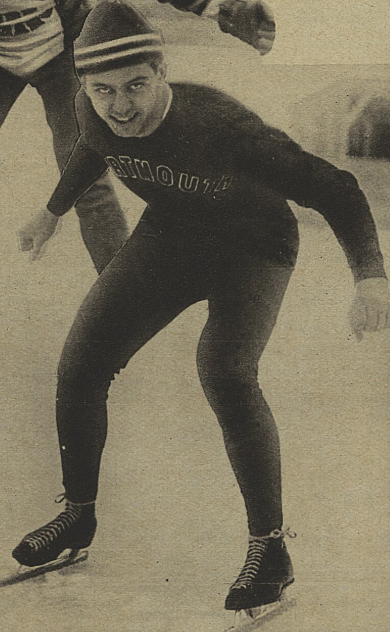 Irving Jaffee, American speed skater and 1932 Olympic winner